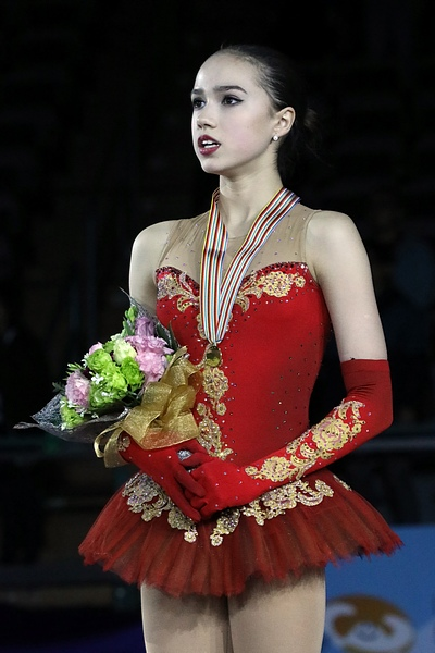 Alina Zagitova at the Junior World Championships 2017 - Awarding ceremony